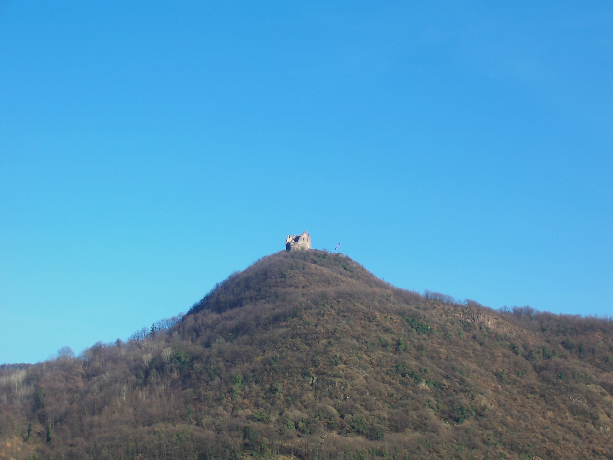 Leuchtenburg Castle as seen from Lake Kaltern, South Tyrol, Italy